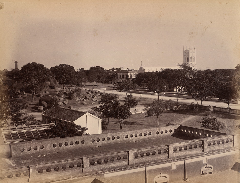 Long view of St Mary's Roman Catholic Cathedral, taken by Deen Dayal, c. 1890